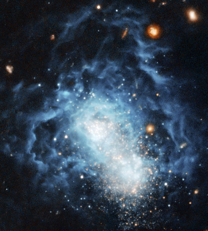 Detailed Hubble image